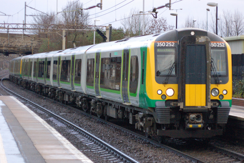 London Midland 350252 arrives at Watford Junction with a service for London Euston.